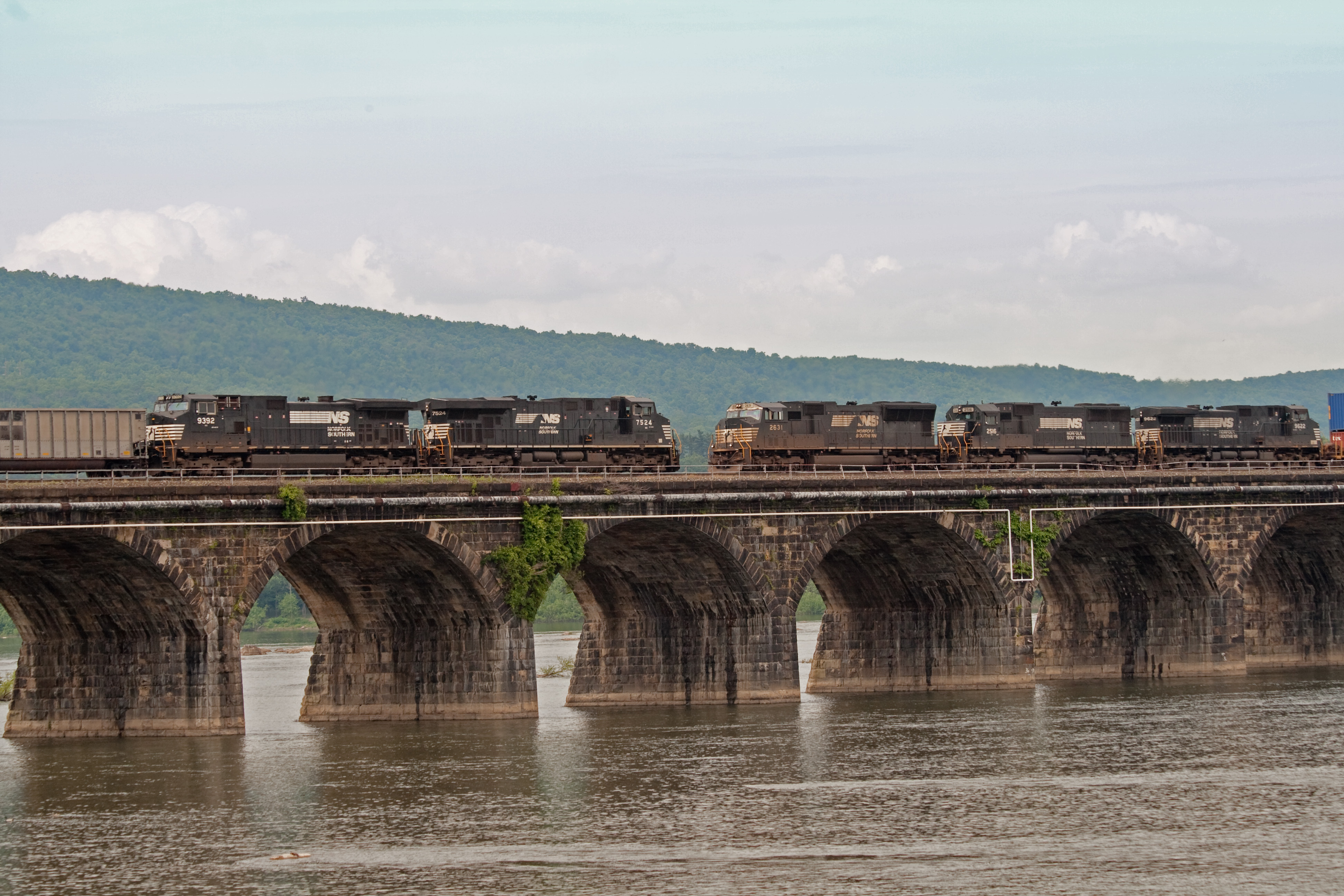 Two NS freights prepare to pass on the Rockville Bridge. This picture was taken from the deck of the Bridgeview B&B -a railfans paradise.